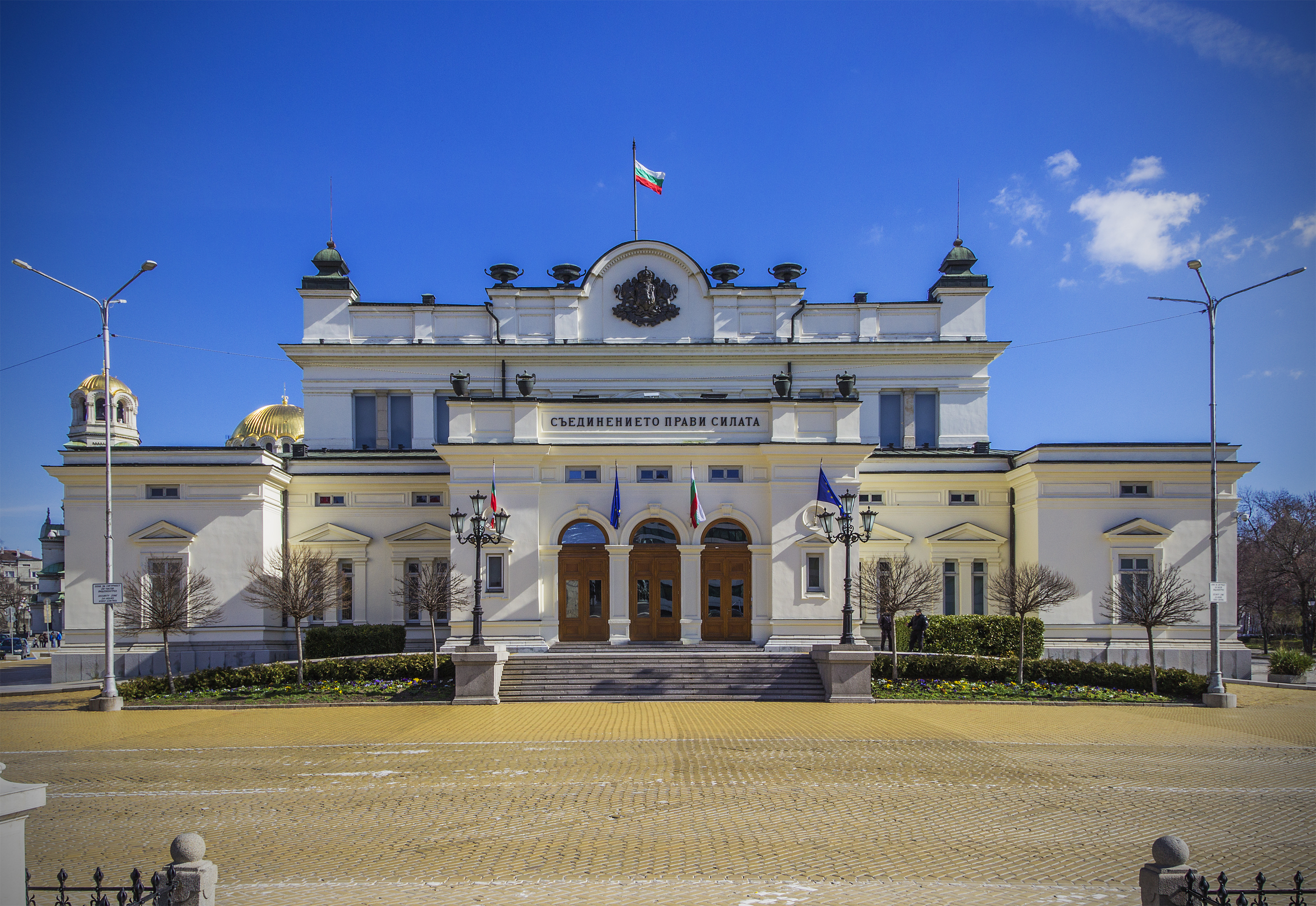 Bulgarian Parliament